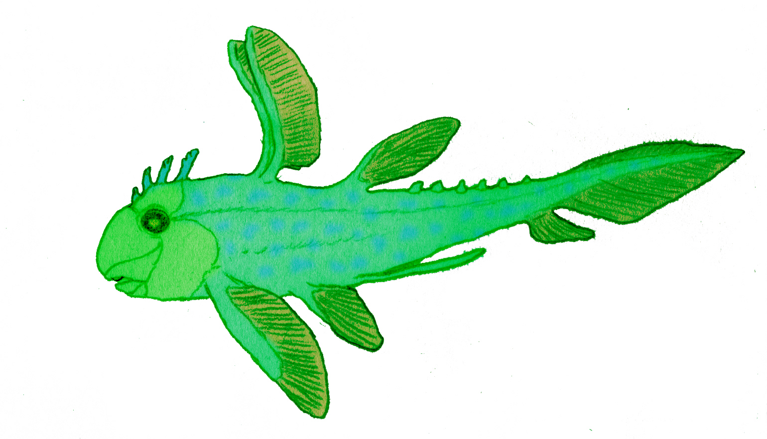 Restoration of Echinochimaera, an extinct holocephalian